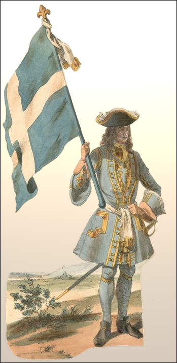 Illustration of the Regiment de Champagne c. 1700. Adapted from print in the Vinkhuijzen Collection of Military Costume Illustration assembled by H. J. Vinkhuijzen (1843-1910)